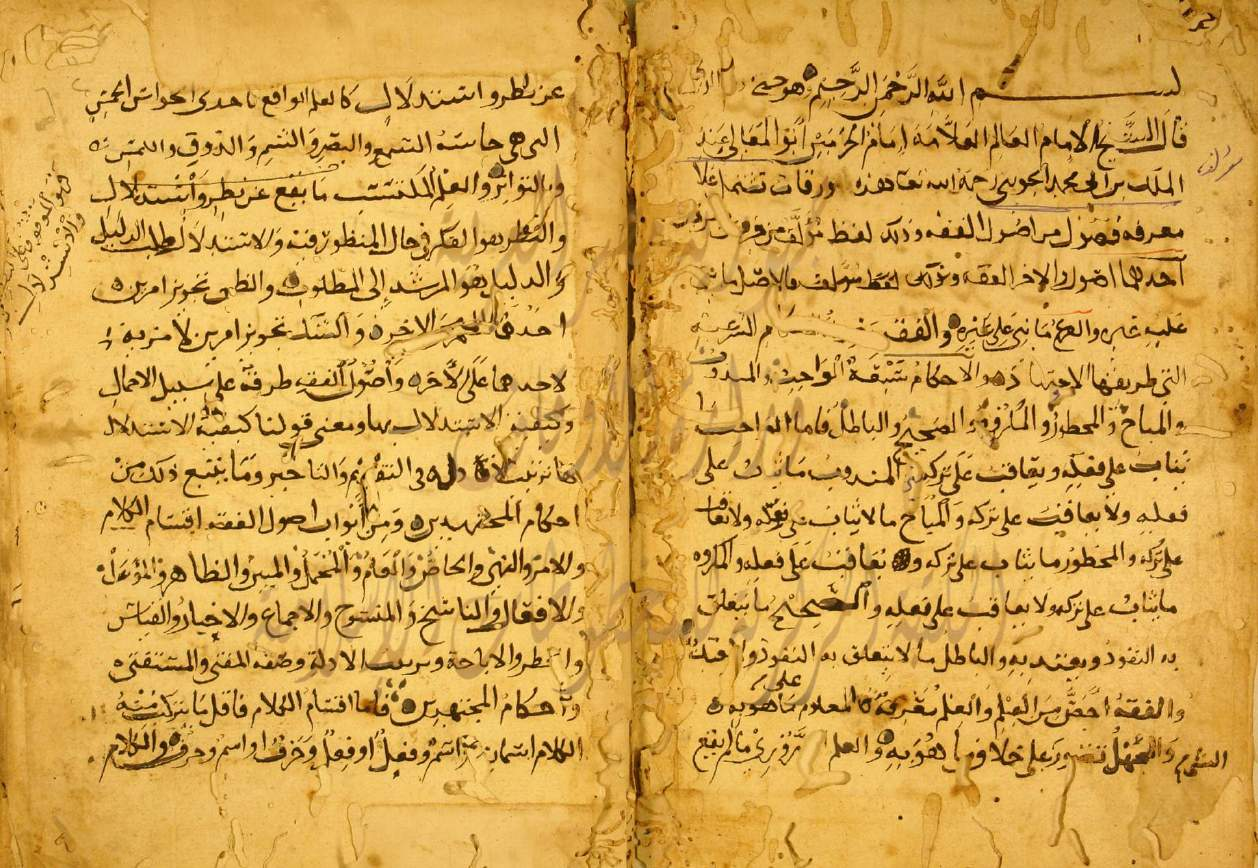 Manuscript of al-Waraqat of Al-Juwayni. Egypt